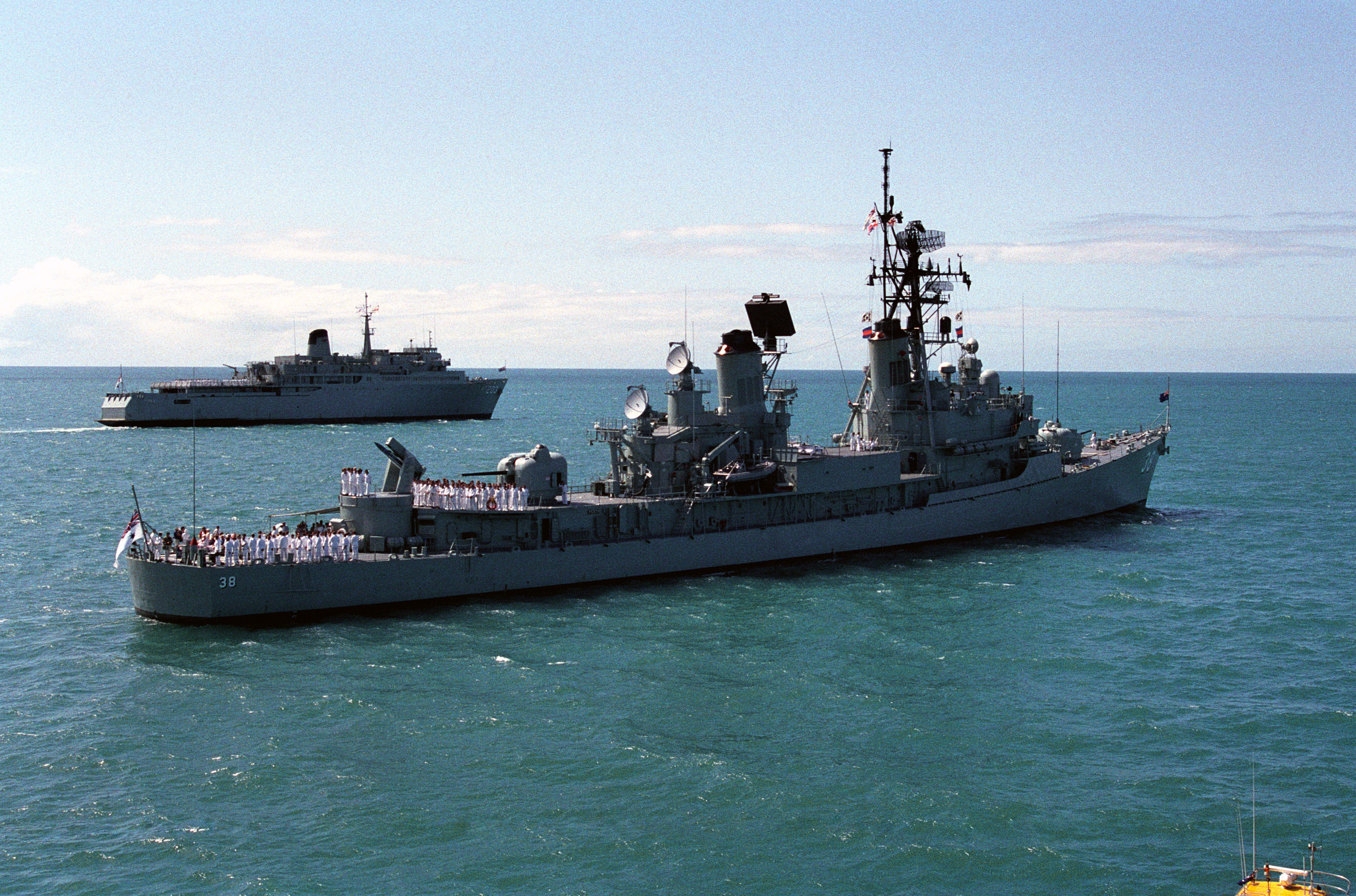 Service Depicted: Navy Command Shown: N0881-SCN-5/92-029 A starboard quarter view of the Royal Australian guided missile destroyer HMAS PERTH (DDG-38) and the logistic support ship HMAS JERVIS BAY (GT-203) underway as part of an Australian/U.S. Navy task group commemorating the 50th anniversary of the Battle of the Coral Sea. Location: TOWNSVILLE, QUEENSLAND AUSTRALIA (AUS) Date Shot: 10 May 1992